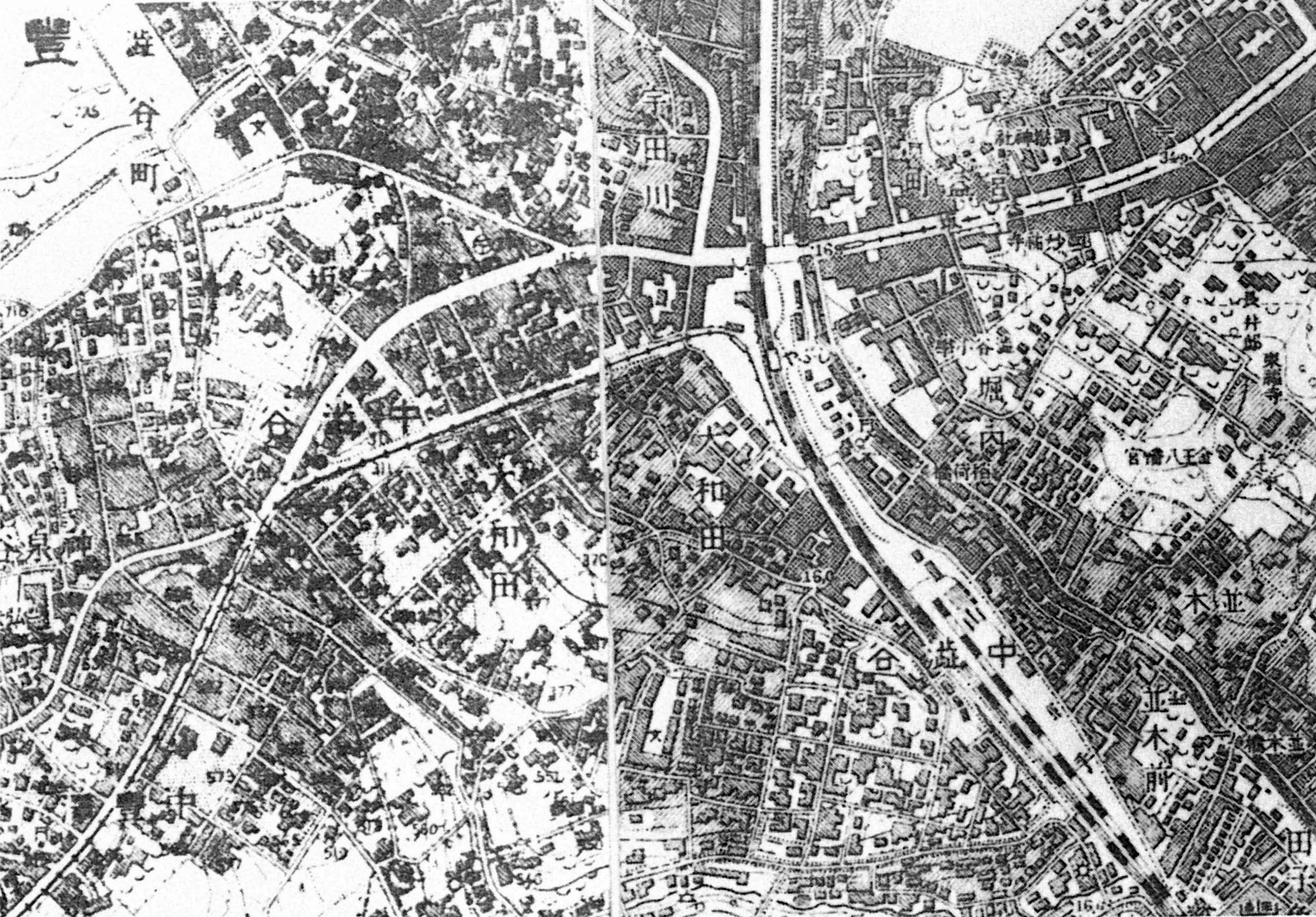 Map of around Shibuya station in 1921